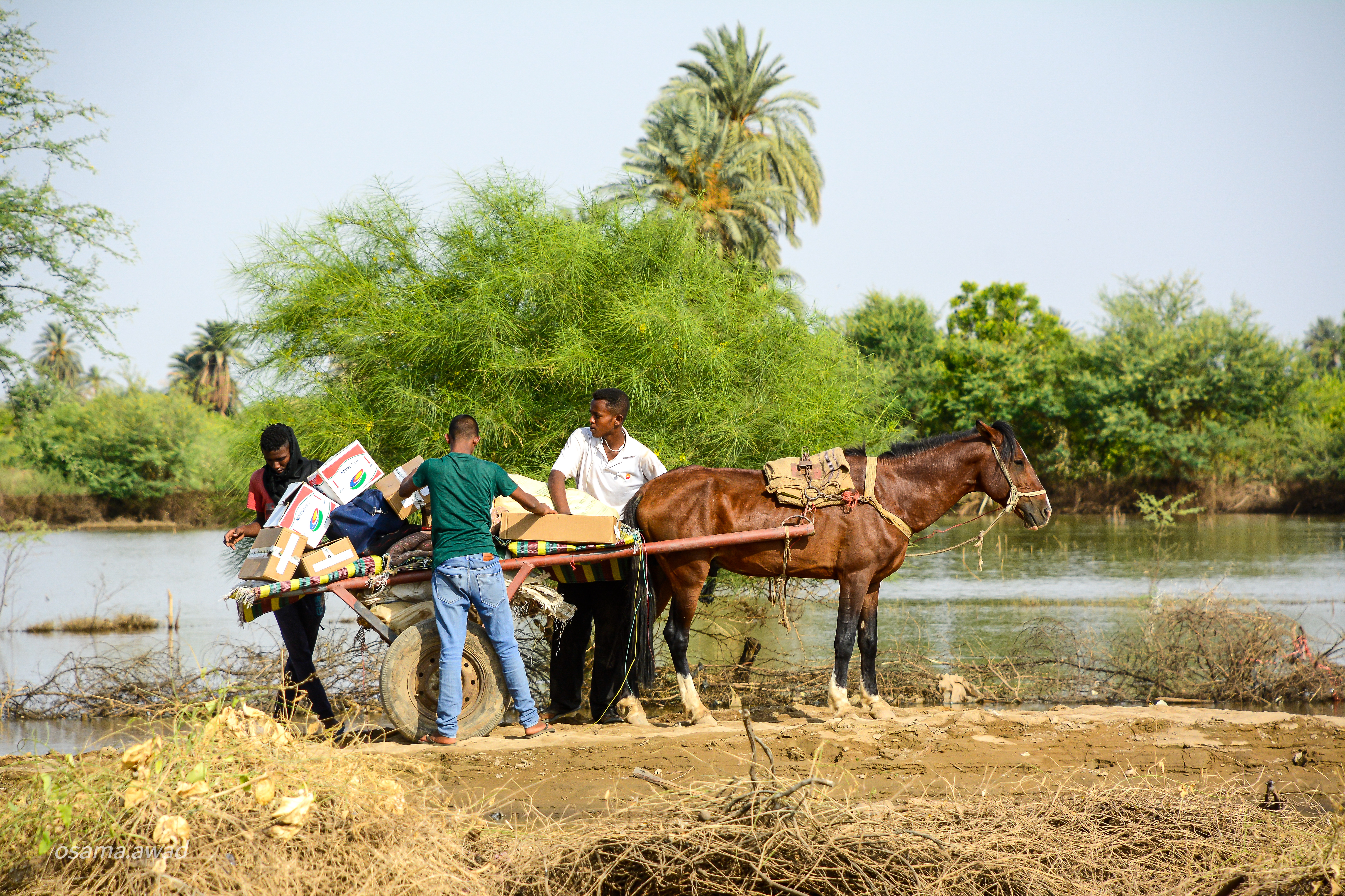 قرية ود رملي This is an image with the theme "Africa on the Move or Transport" from: Sudan